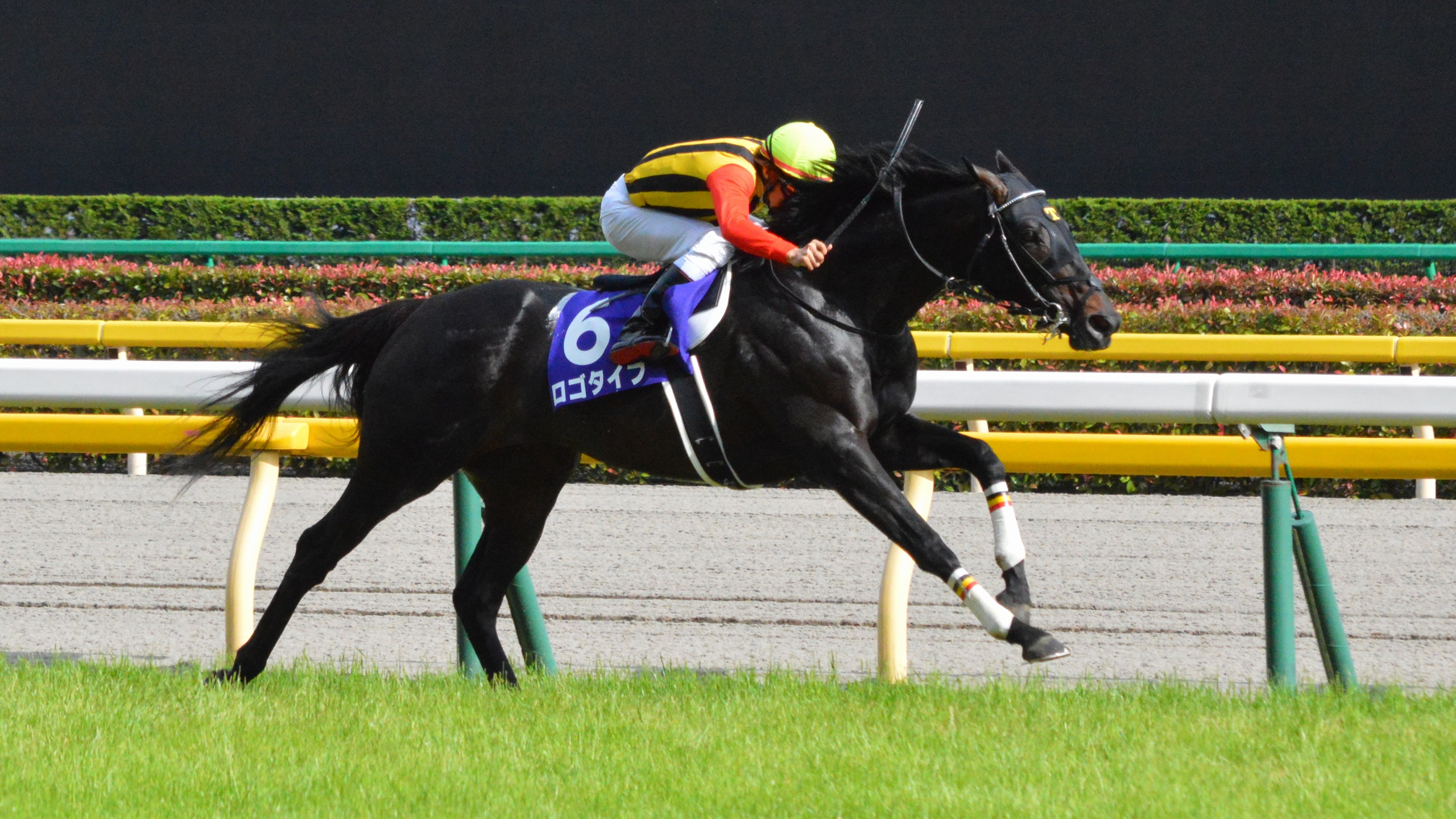 Japanese race horse Logotype at Tokyo racecourse. Tokyo (JPN) 5 Jun 2016Yasuda Kinen (Grade 1) (3yo+) (Turf) 1m Firm RankHorse NameOddsAgeWgtTrainerJockey1stLogotype (JPN)359/10H69-2Tsuyoshi TanakaHironobu Tanabe2ndMaurice (JPN)7/10FH59-2Tommy BerryNoriyuki HoriOthers are omitted. (12 horses entered in a race.)